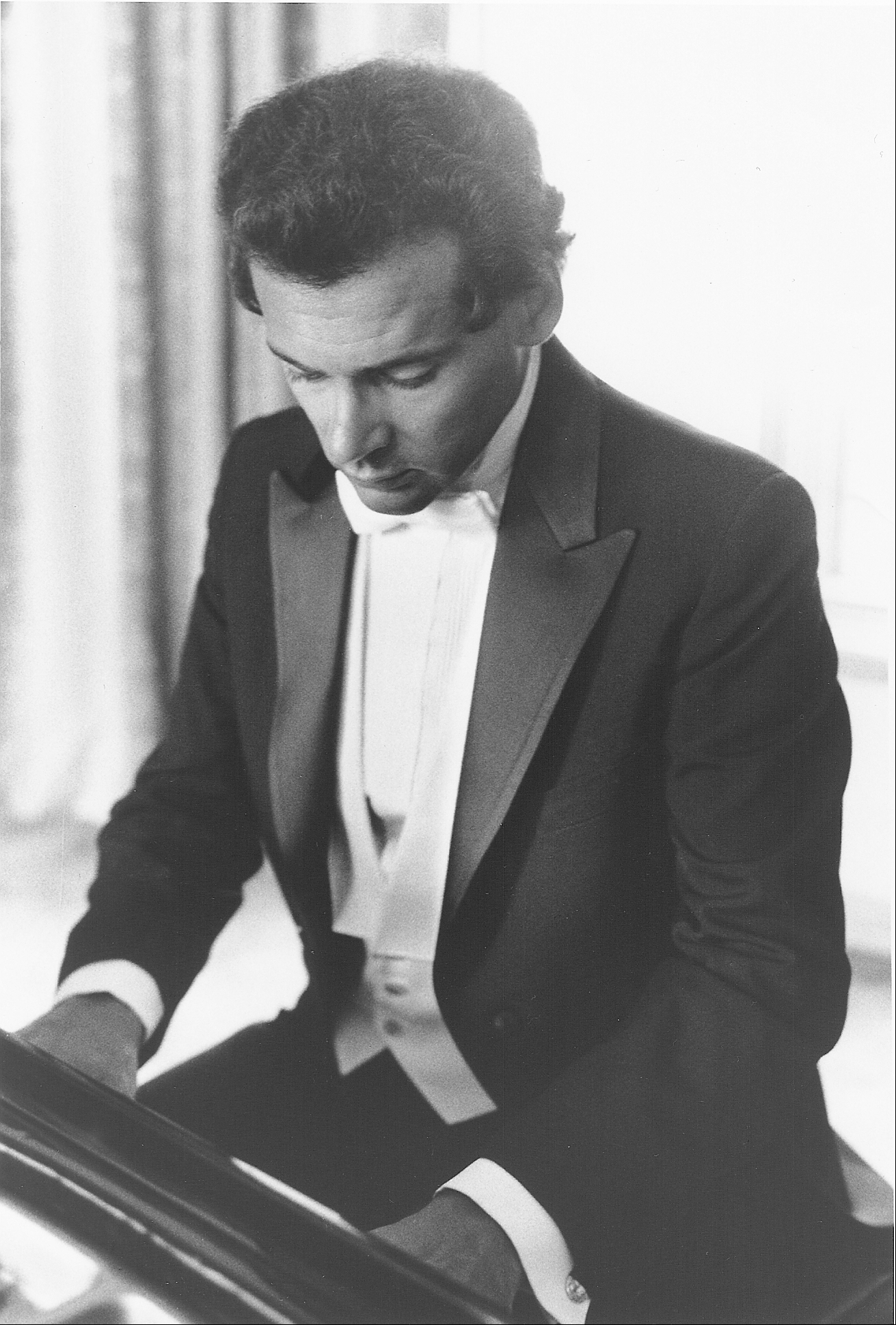 The photo is of the Canadian classical pianist, author and professor Yaroslav Senyshyn ('Slava'), with ownership given to Sn0fl4ke. The photo is of Dr. Senyshyn at his piano in 1986. One of the earlier photos taken of the pianist.